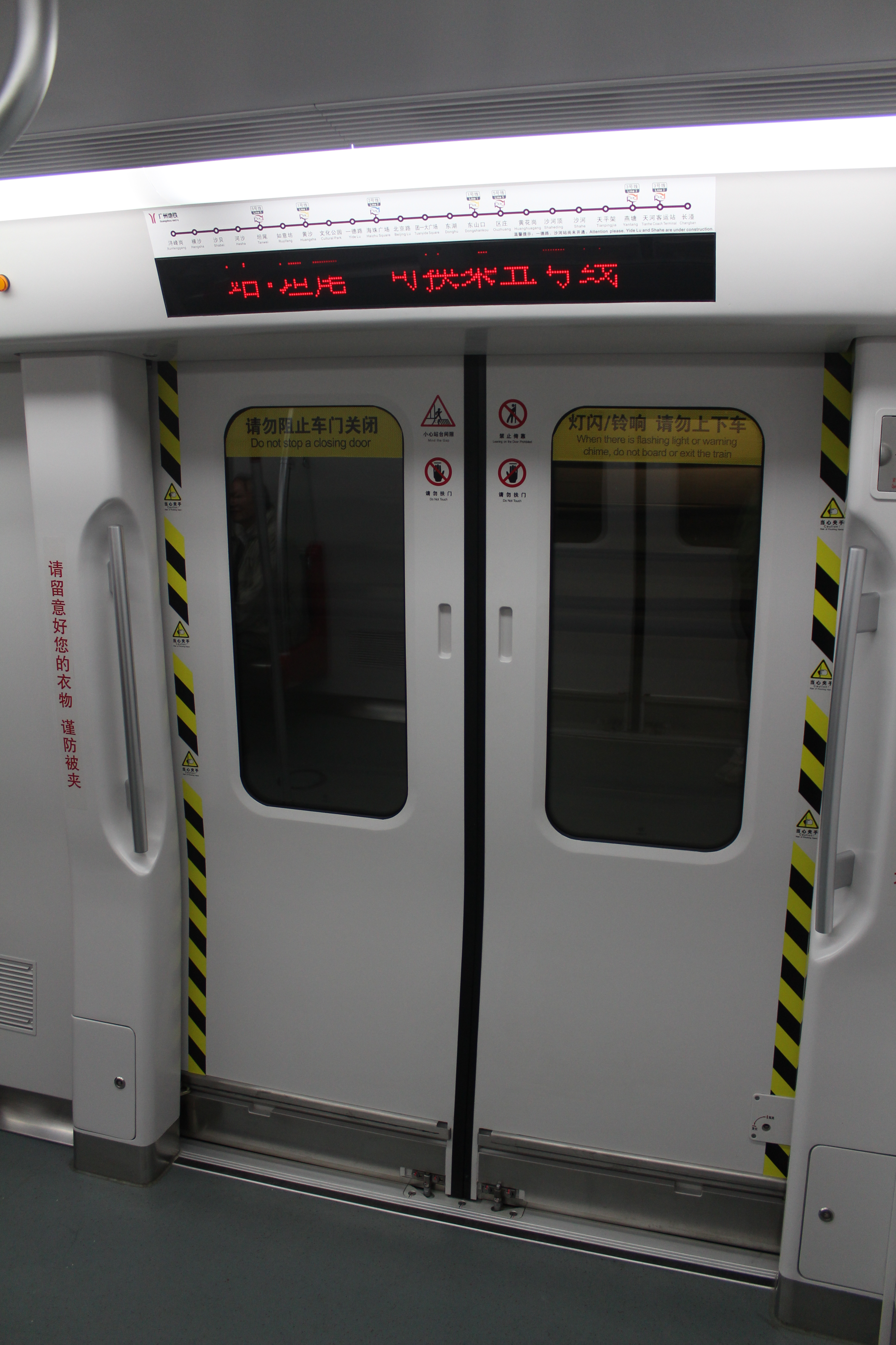 GZmtr-Door-Line6-Train For L3